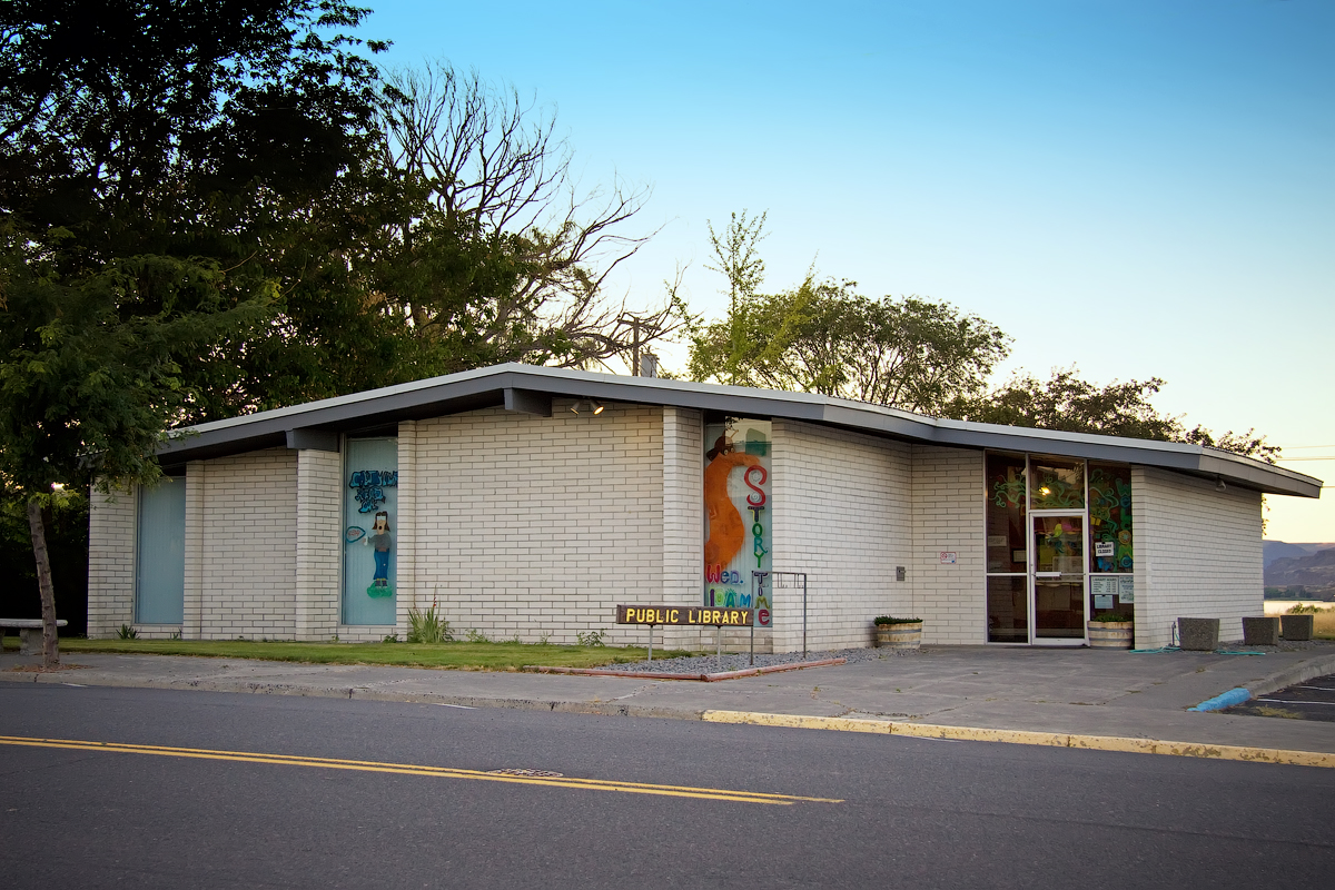 Soap Lake Public Library. Address: 32 E Main, Soap Lake, WA, USA. See also: Soap Lake Library